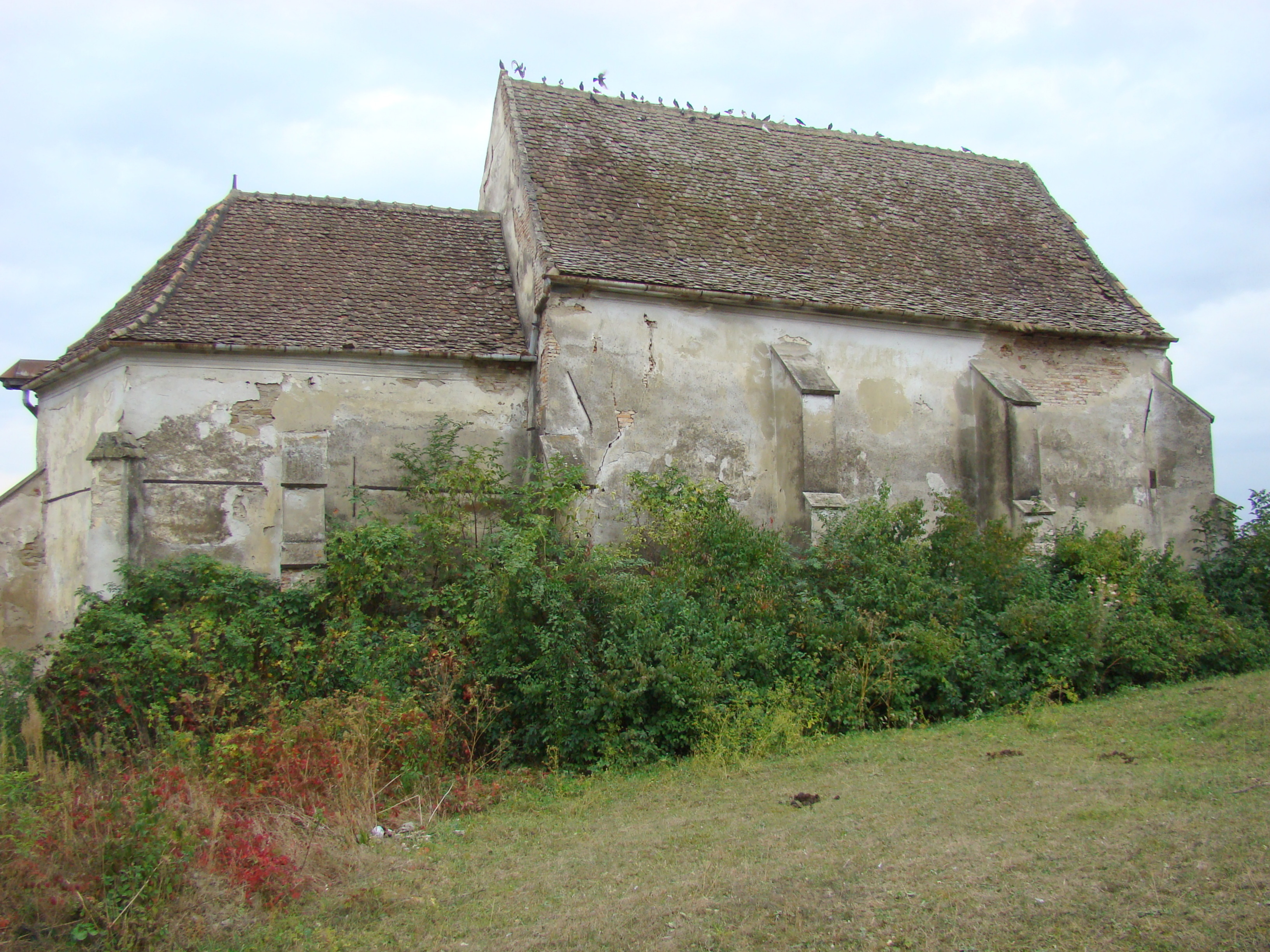 Evangelical Lutheran Church in Veseuș, Alba county, Romania 01